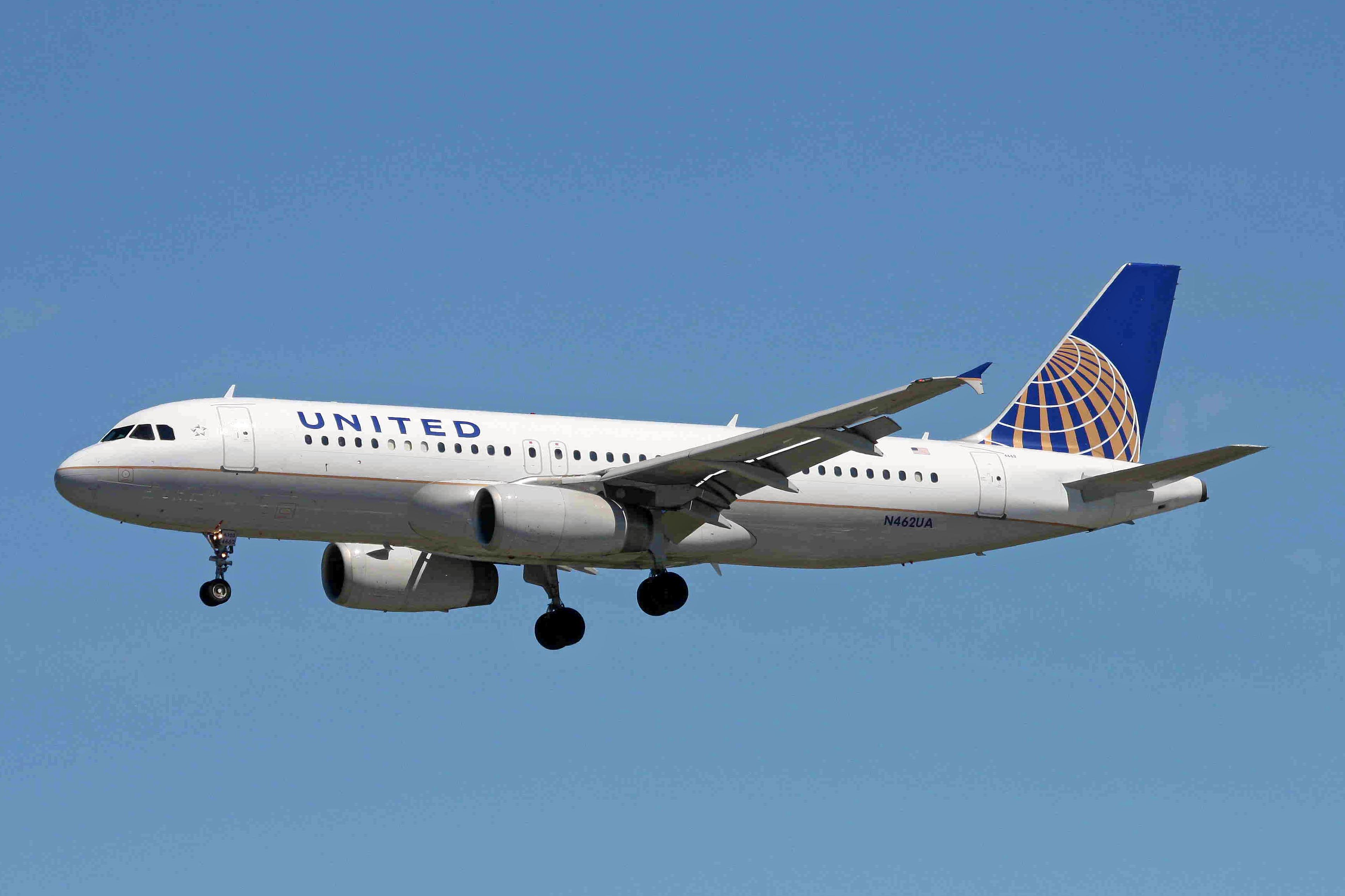 United Airlines in Continental c/scheme